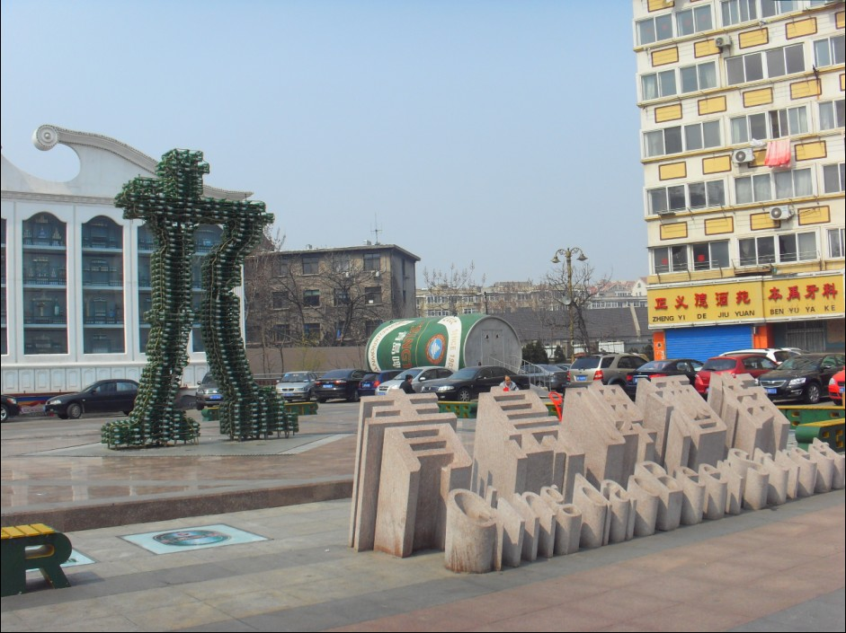 the Qingdao Beer Street,Shibei District,Qingdao,Shangdong,China The photograph was taken by User:Baomi in April, 2012.